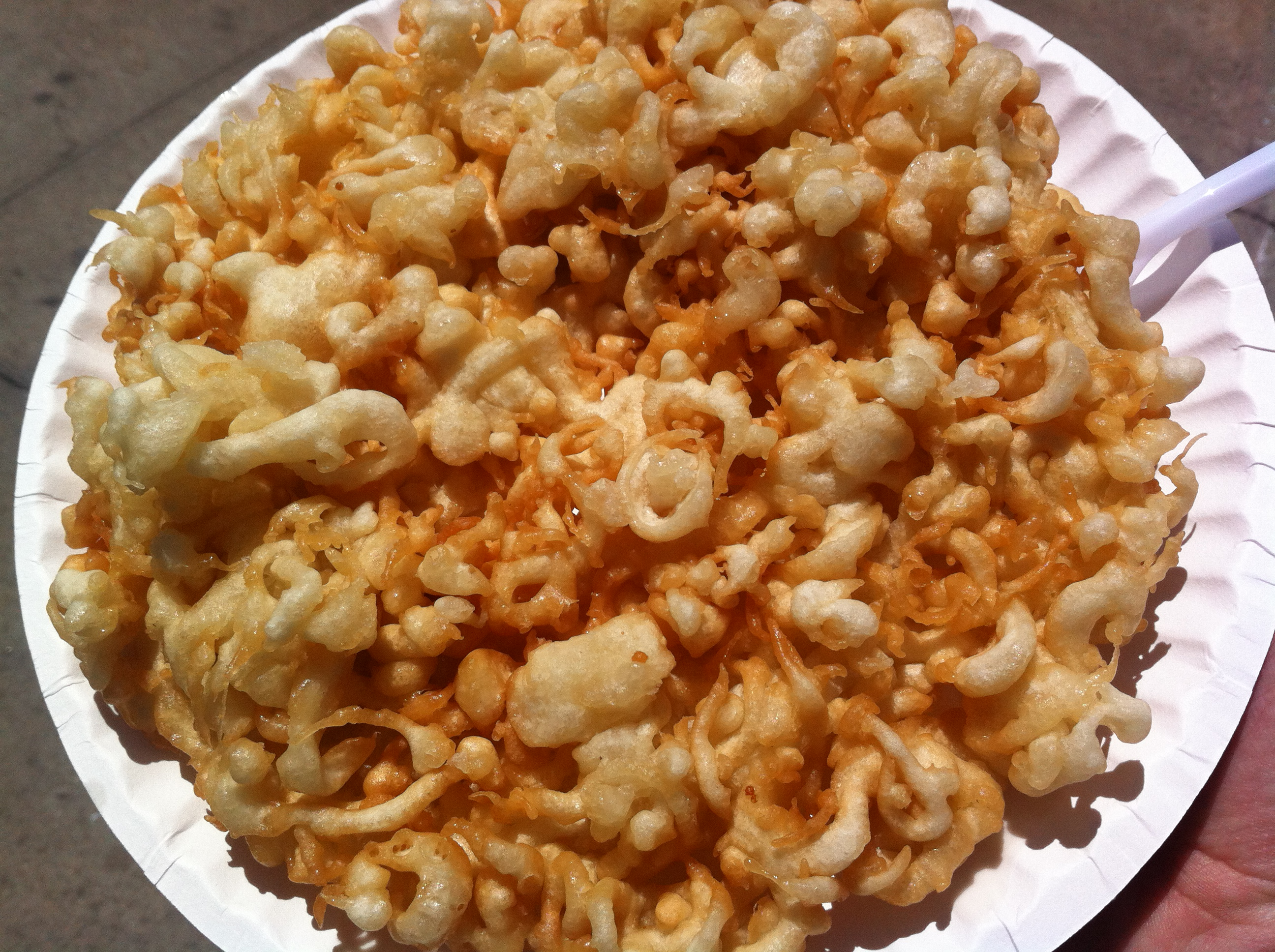 Funnel Cake from Coney Island amusement park in New York, New York.